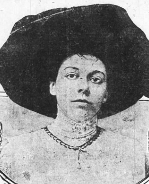 A young white woman wearing a large dark hat and a high-collared blouse or dress.